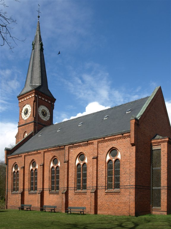 Elmshorn (Slesvic-Holstein, Germany), Collegiate church (ev.luth.), photo 2008